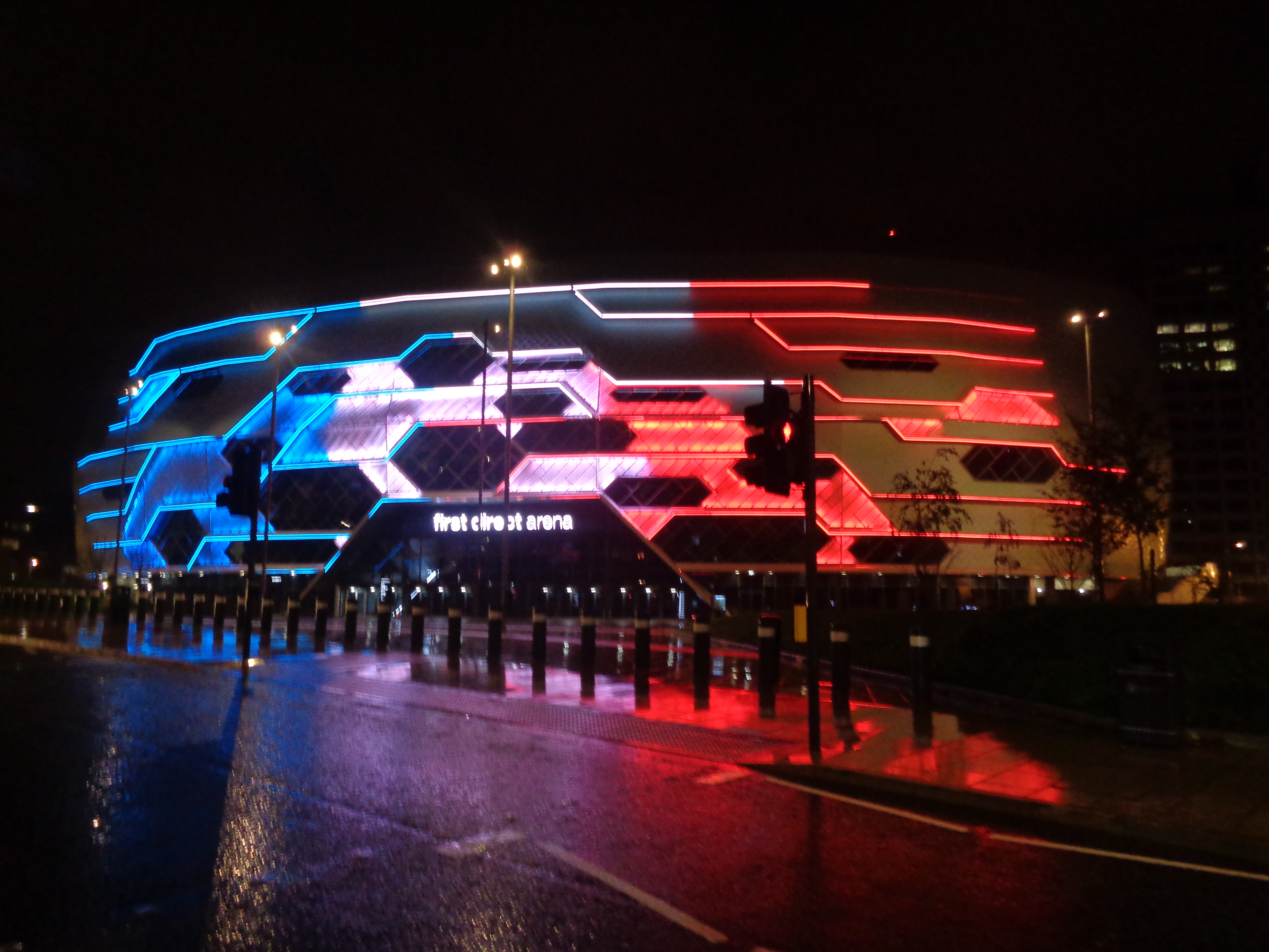 The First Direct Arena (Leeds Arena) on Clay Pit Lane in Leeds, West Yorkshire in the colours of the French Tricolor following the previous nights attacks in Paris. Taken on the night of Saturday the 14th of November 2015.